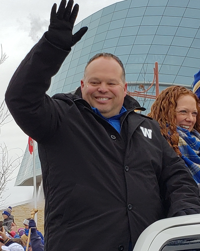 Blue Bombers' Wade Miller at their 2019 Grey Cup parade.